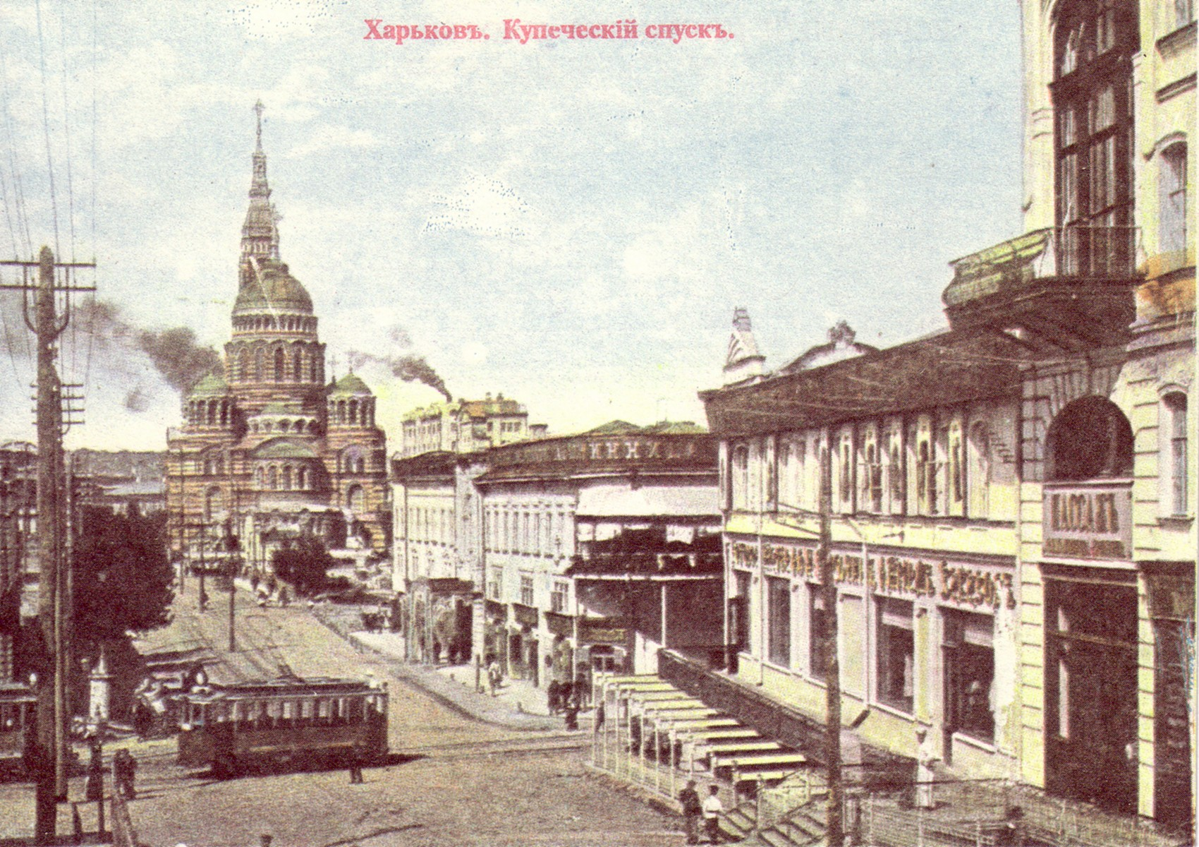 View from Kupechesky Spusk towards Kupechesky Bridge, Blagoveshchenskaya Square and Annunciation Cathedral.